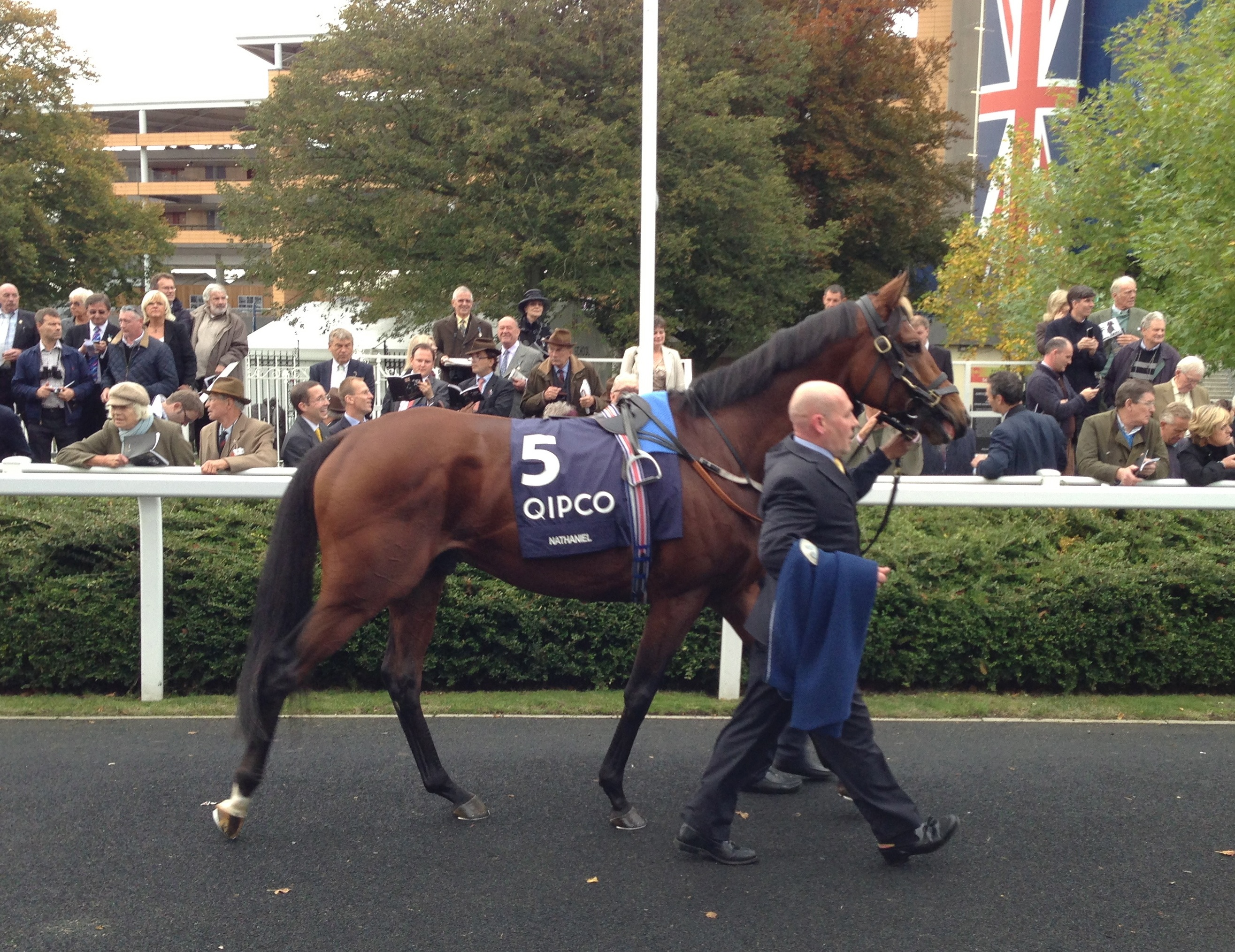 Nathaniel in the pre-parade ring at Ascot.